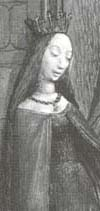 Constance of France